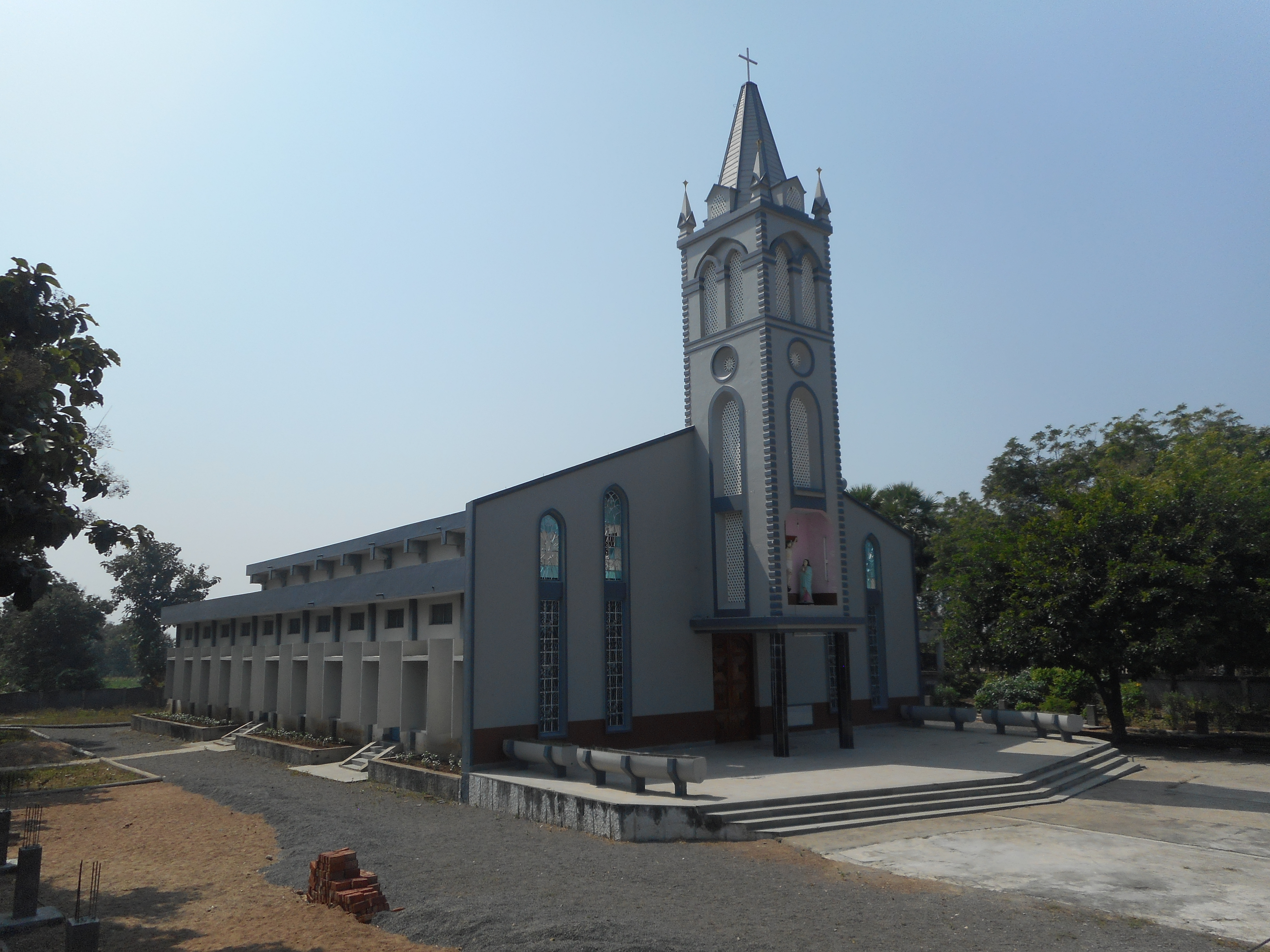 St Joseph's Church-2 in keesara village, Kanchikacherla mandal of Krishna District